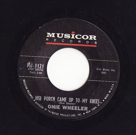 Her Porch Came Up to My Knees by Onie Wheeler, Musicor 1965.